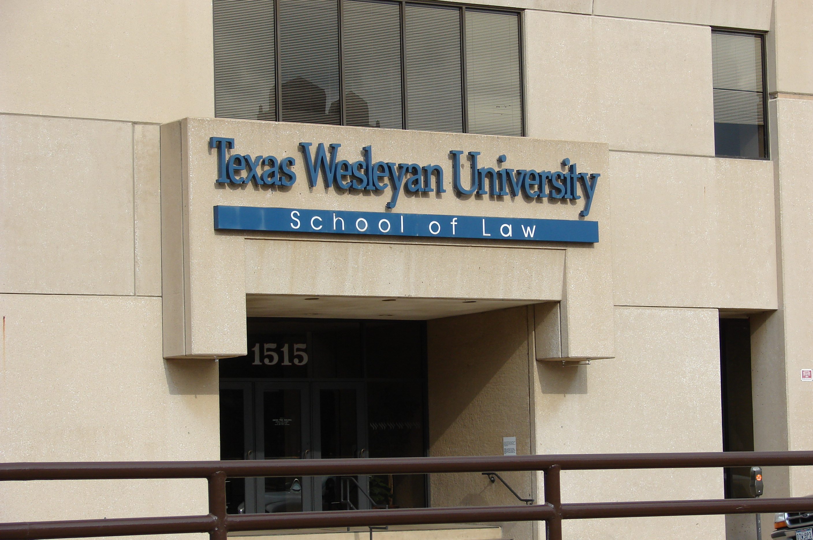 Texas Wesleyan University School of Law in Fort Worth, Texas